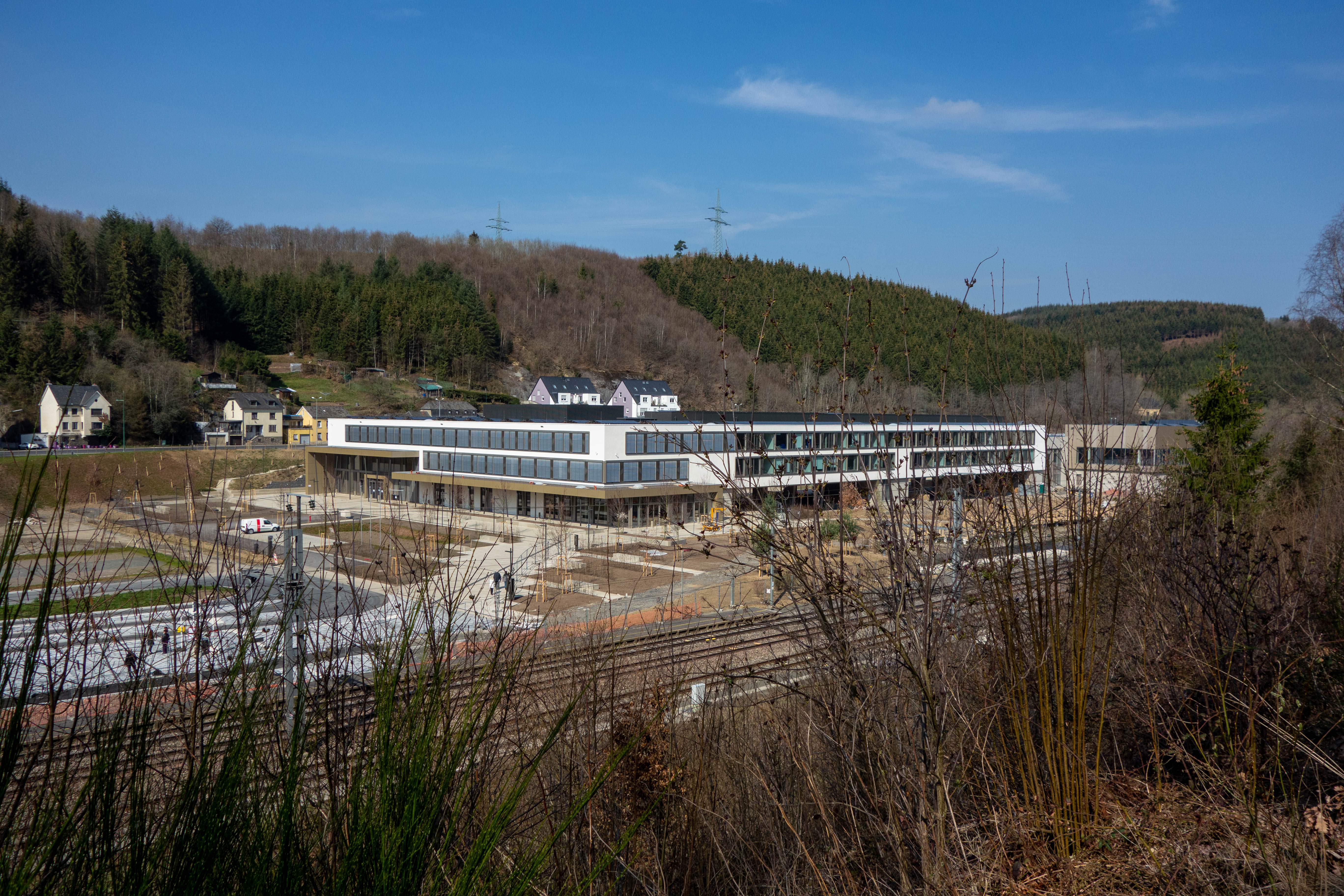 Lycée Edward Steichen